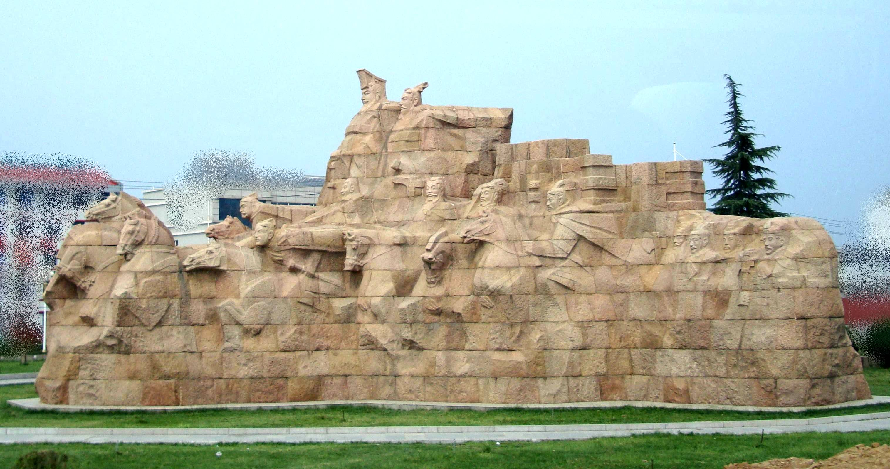 A modern statue of the First Emperor and his attendants, on display at Xian.